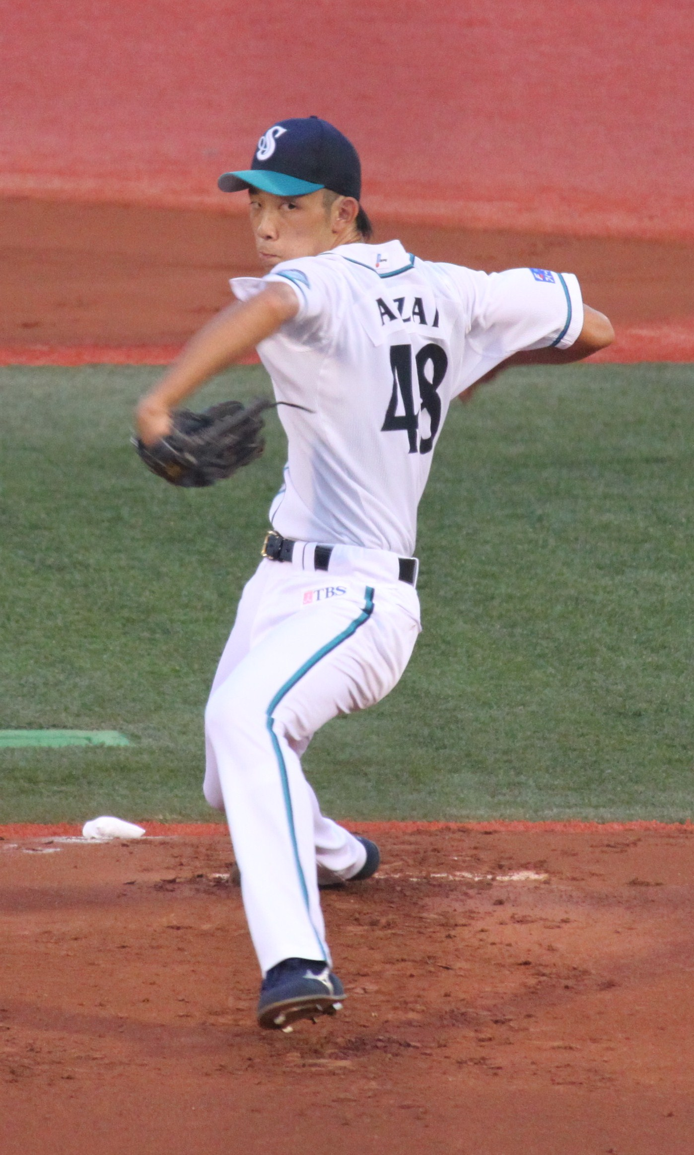 Taketora Anzai, pitcher of the Shonan Searex, at Yokosuka Stadium.